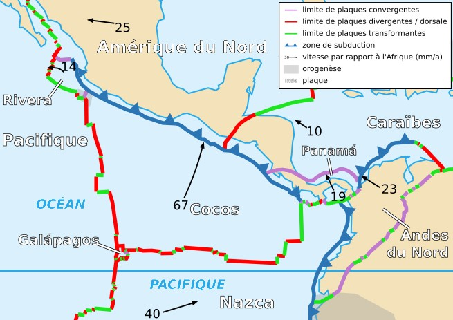 Map of the Cocos Plate